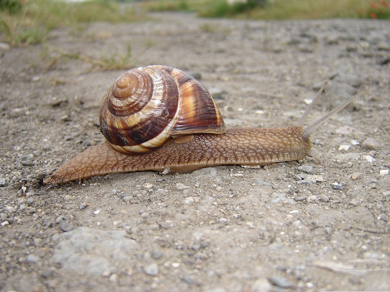 Helix lucorum. Locality: Bulgaria, 25 May 2007.